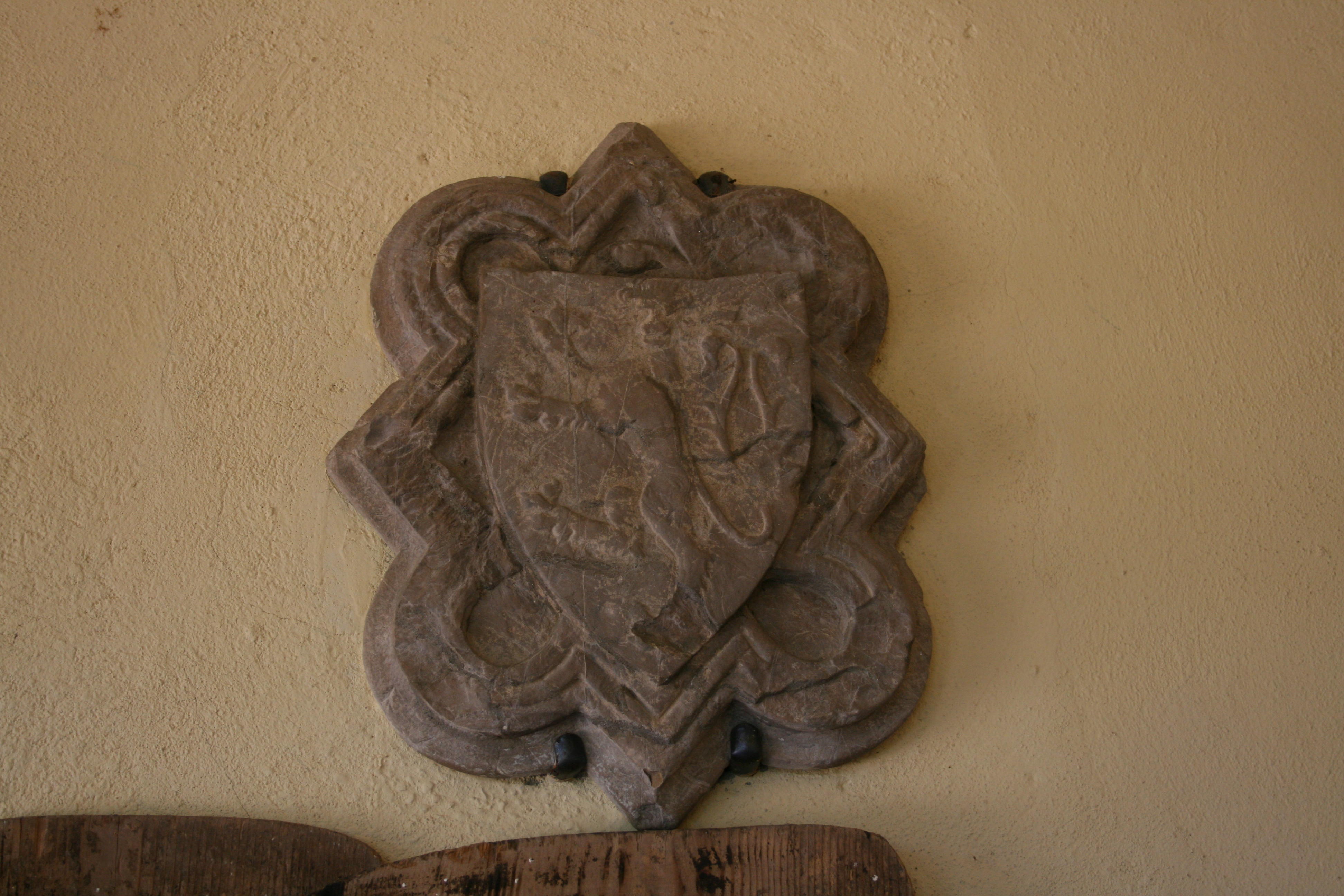 The church of Pietraversa in Montevarchi countryside